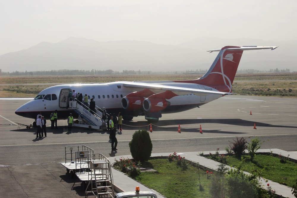 khoy airport passengers